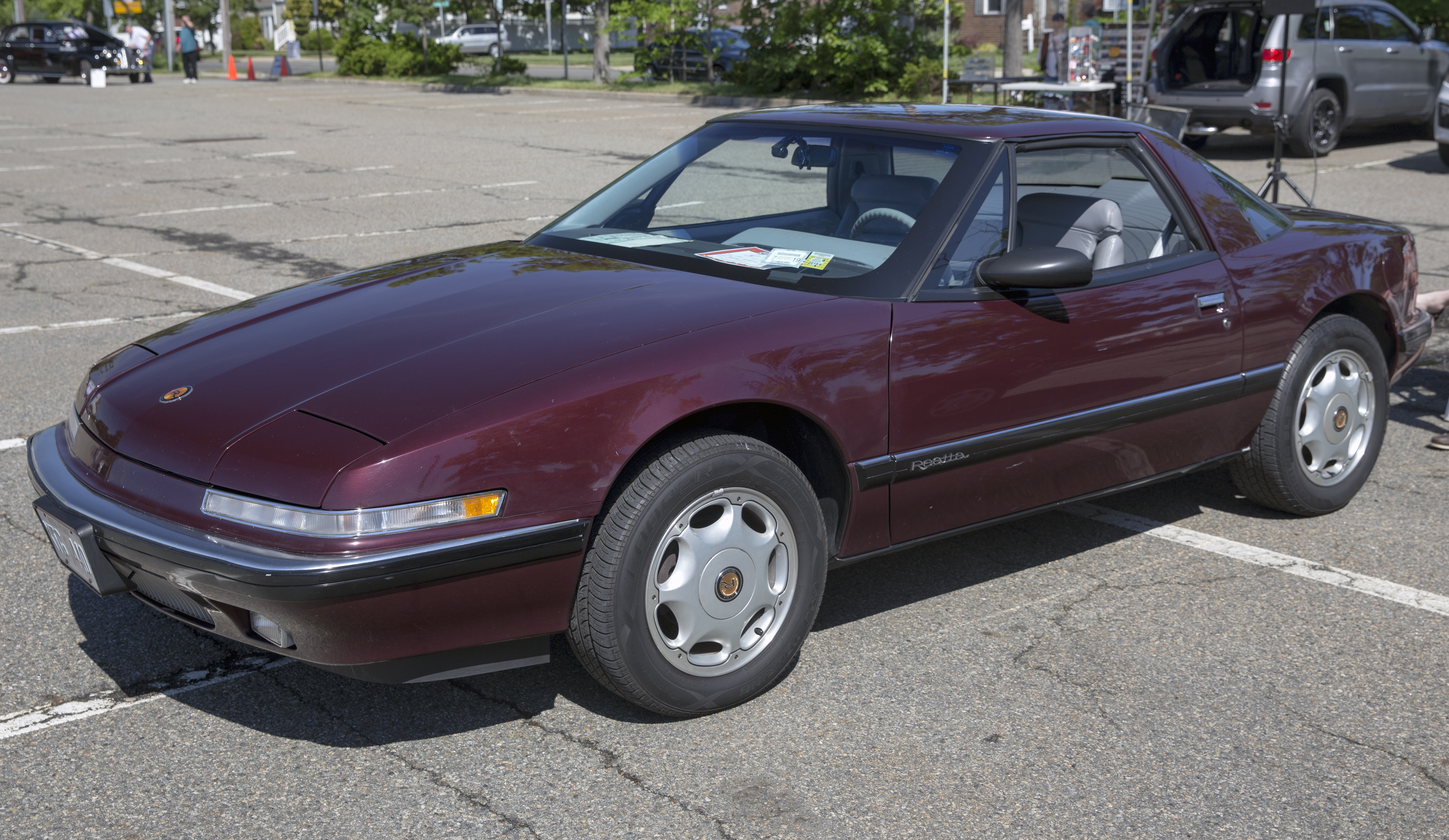 A 1991 Buick Reatta coupé in Claret Red Metallic - one of less than 100 cars thus finished in 1991. The 4755th Reatta built, sold new to Connecticut. 1991 was the only year for these 16-inch wheels.